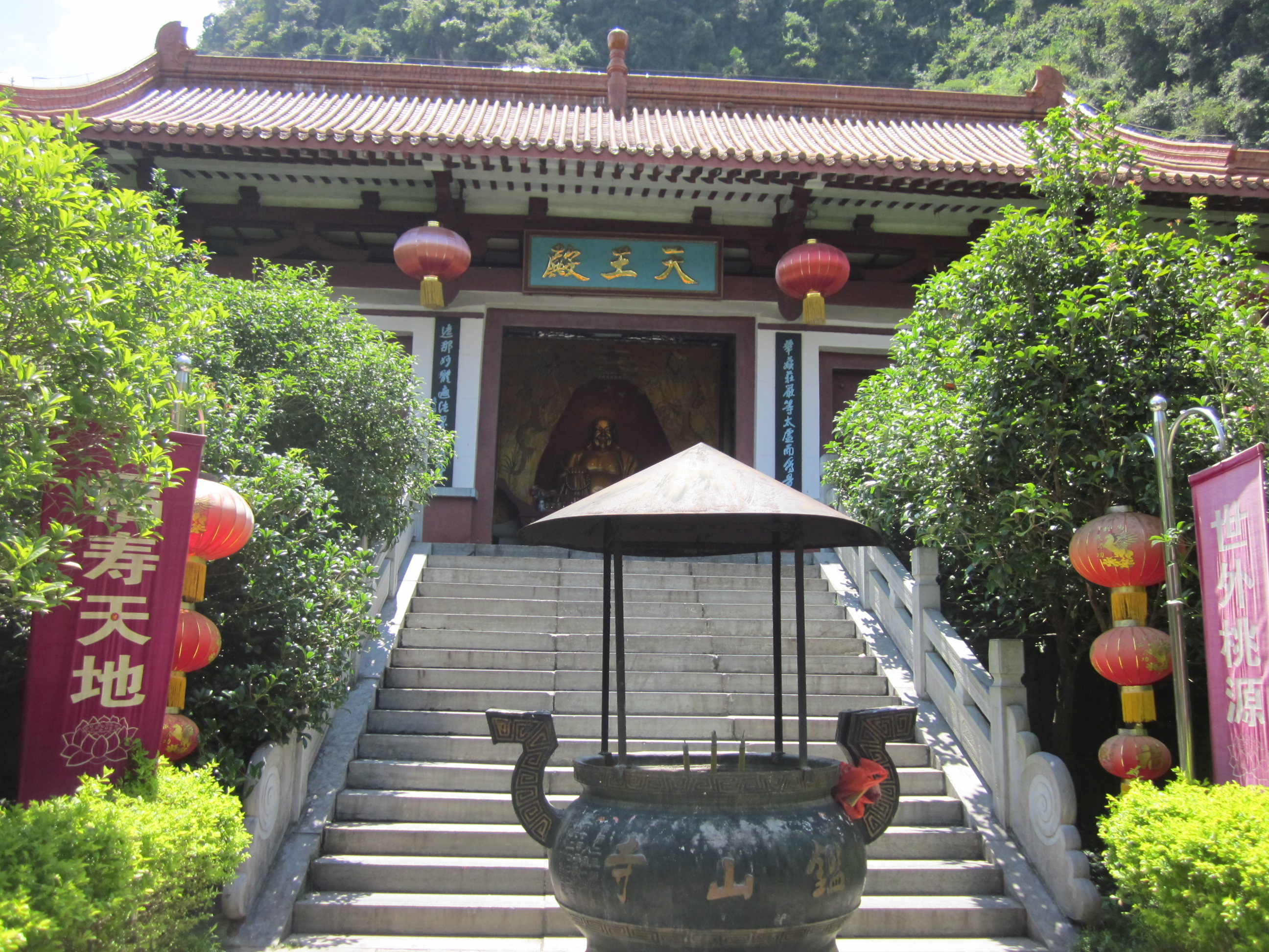 The Hall of Four Heavenly Kings at Jianshan Temple, in Yangshuo County, Guilin, Guangxi, China. Jianshan Temple (Chinese: 鑑山寺) is a Buddhist temple located in Yangshuo County, Guilin, Guangxi, China.